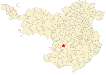 Bonmatí